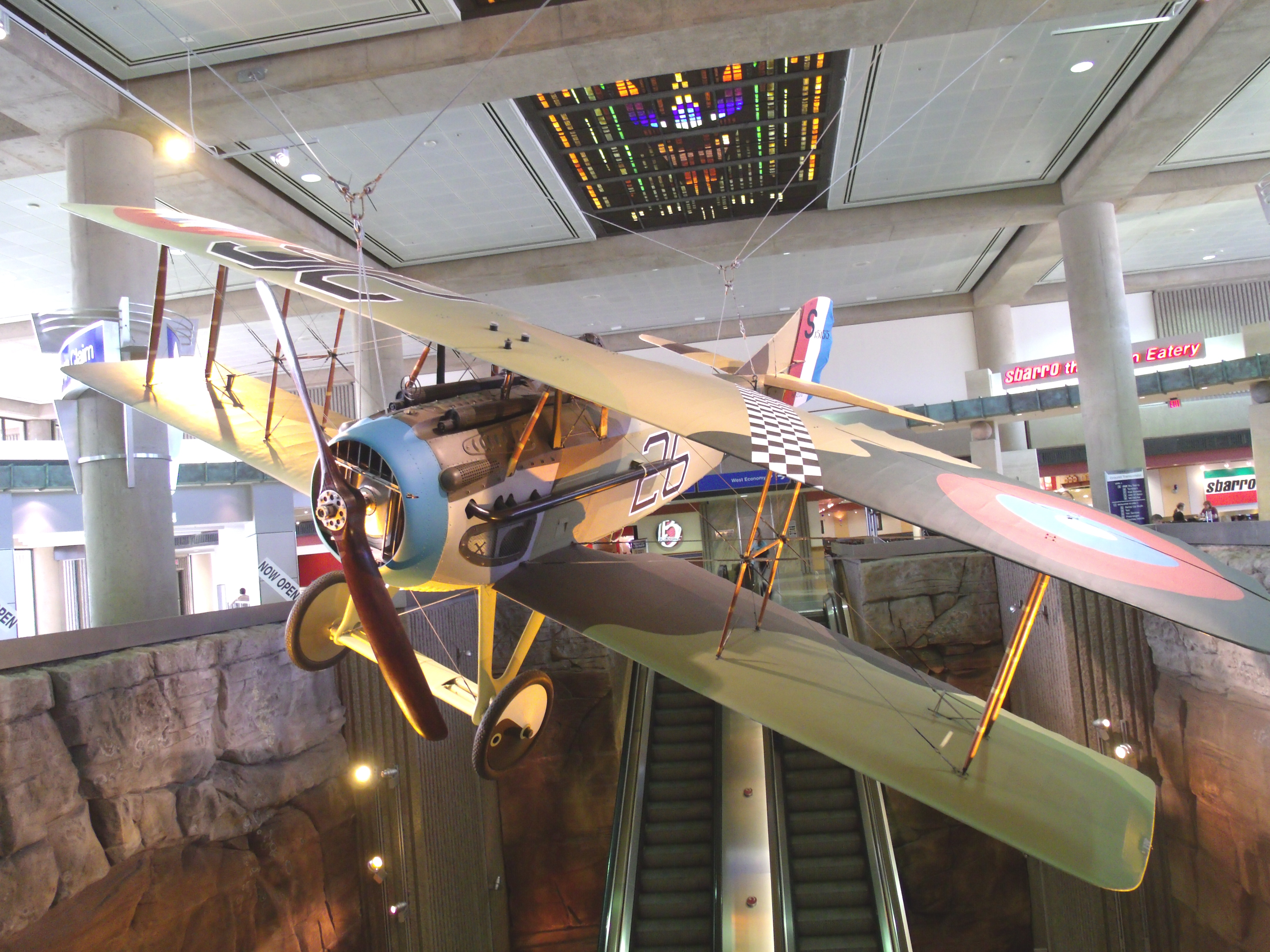 This is the SPAD XIII flown by Arizona native Frank Luke, Jr., the first aviator awarded the Medal of Honor, the highest military decoration in the United States, in World War I. The plane has 80% of its original parts. The other 20% have been restored. It is one of five surviving today and is on display in Terminal 3 of Phoenix Sky Harbor International Airport.